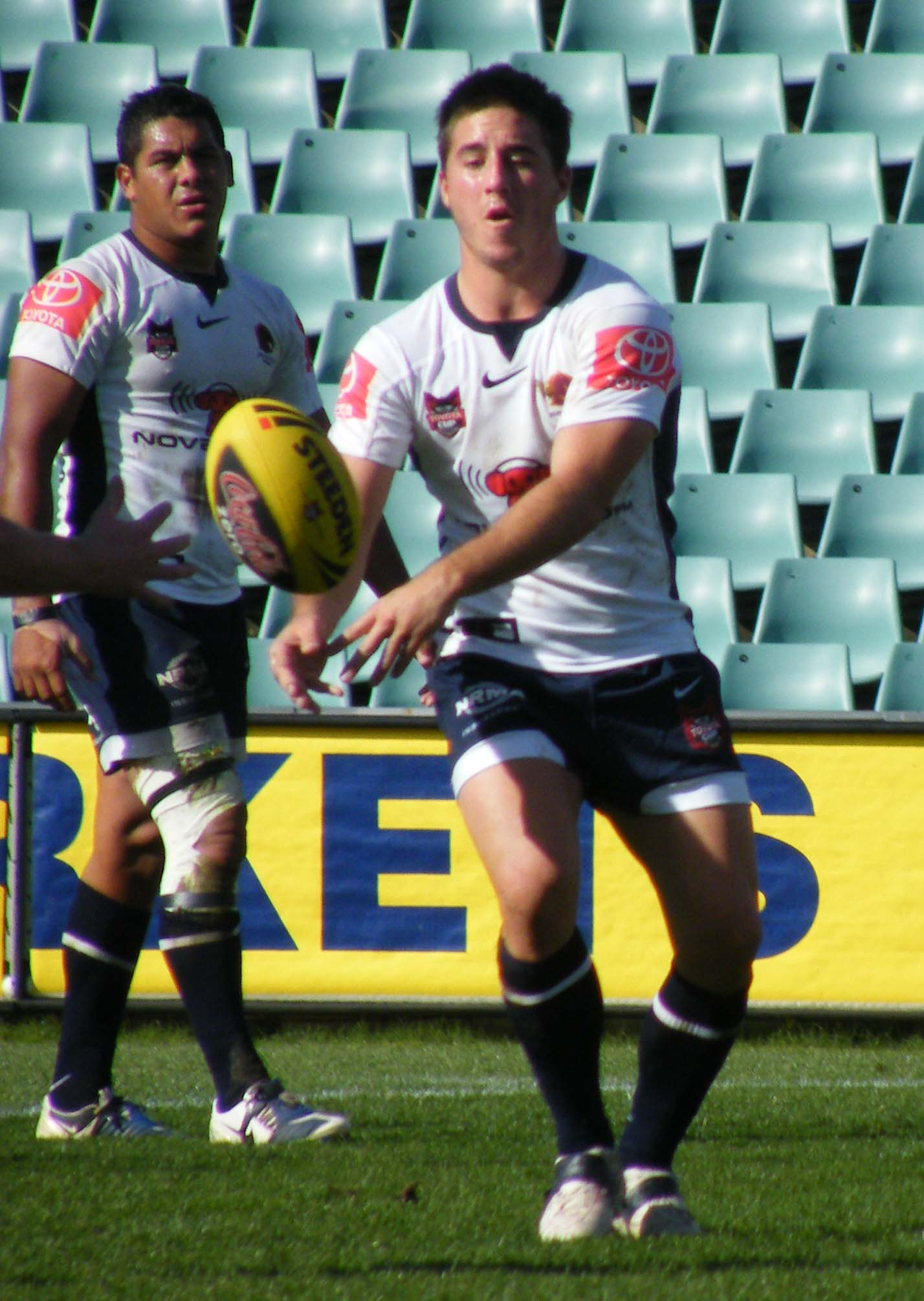 Ben Hunt of the Brisbane Bronco's RLFC